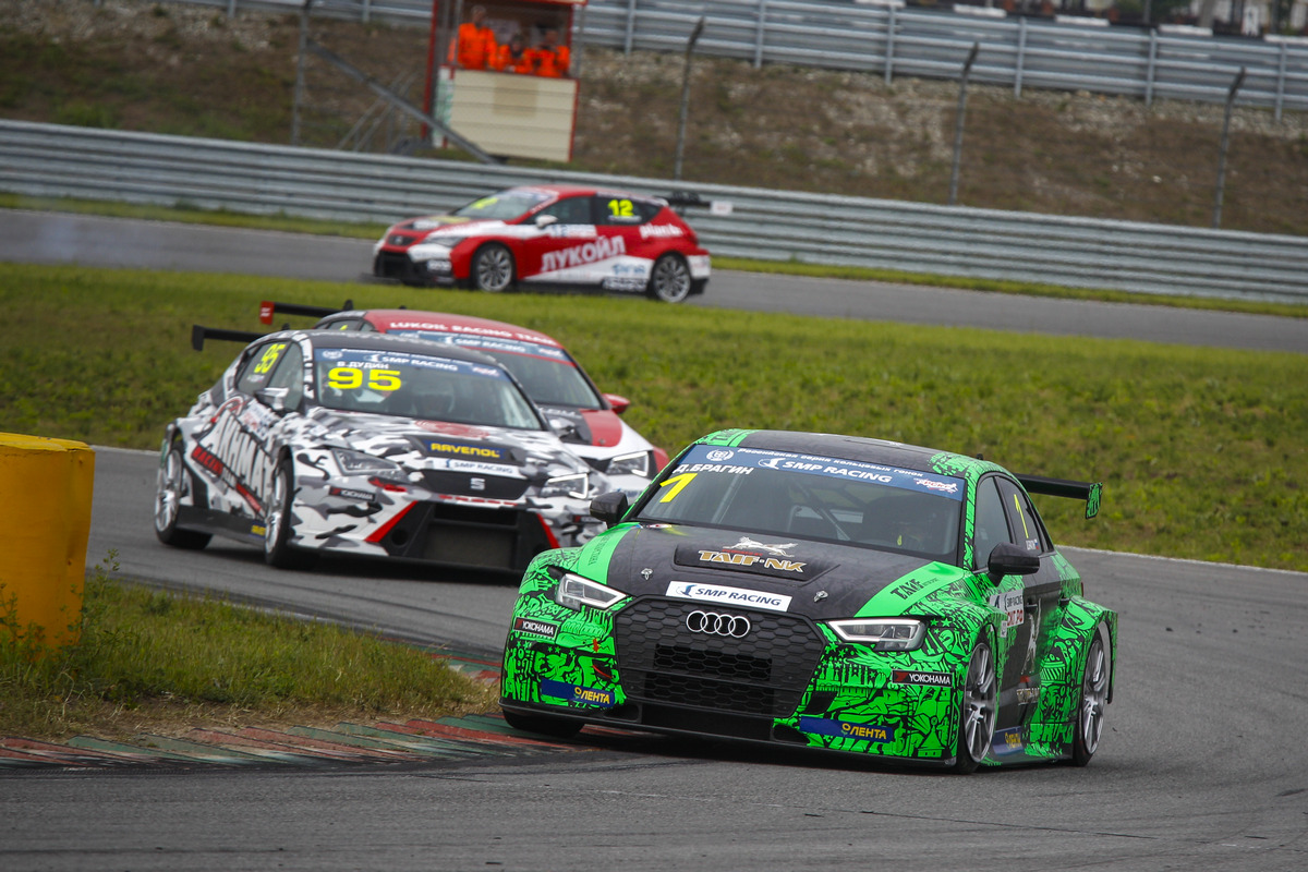 Bragin RS3 2017